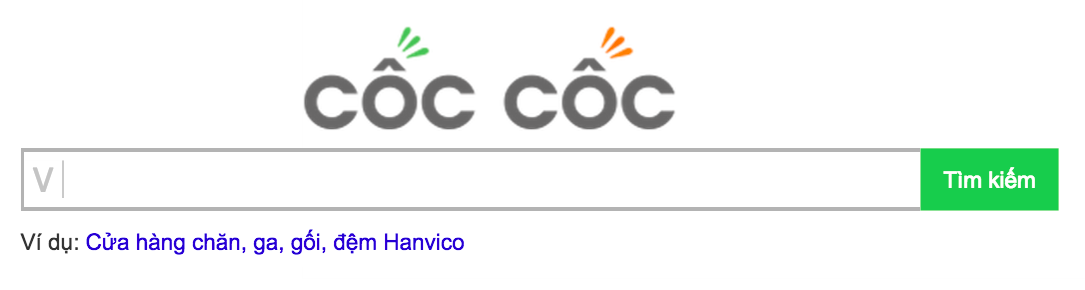 Search box in Cốc Cốc